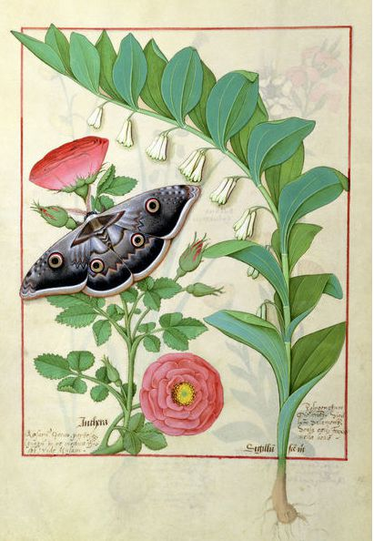 Rose and Polygonatum multiflorum (Solomon's Seal) illustration from 'The Book of Simple Medicines' by Mattheaus Platearius (d.c.1161) c.1470 (vellum)" by Robinet Testard; Original size (cm): 26x35.5; Location: National Library, St. Petersburg, Russia; Medium: vellum